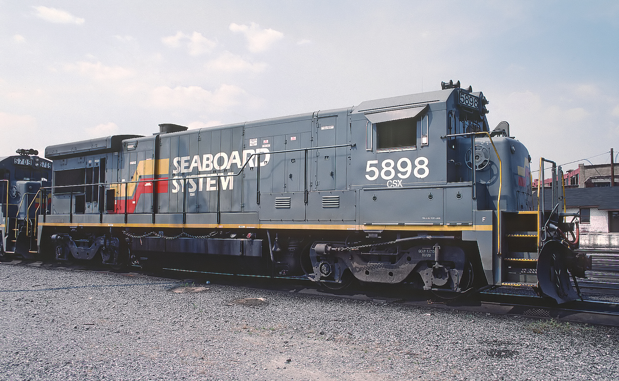 A Roger Puta photograph